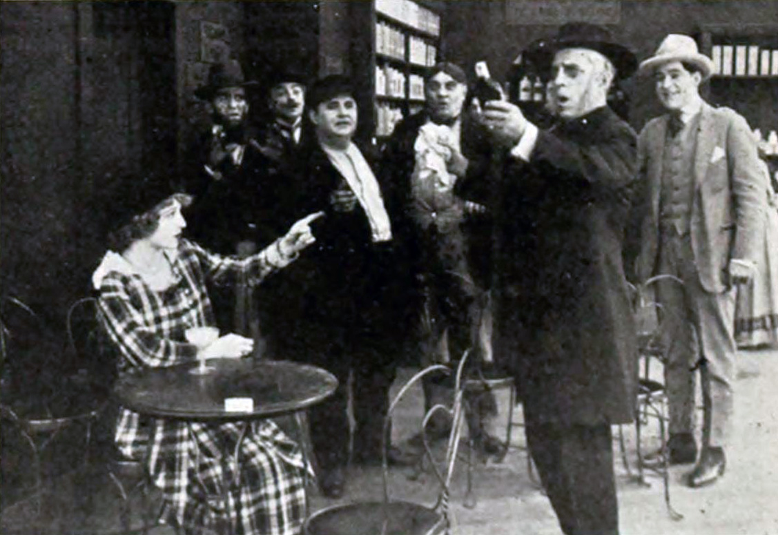 Illustration of a review in The Moving Picture World for A Temperance Town (1916).